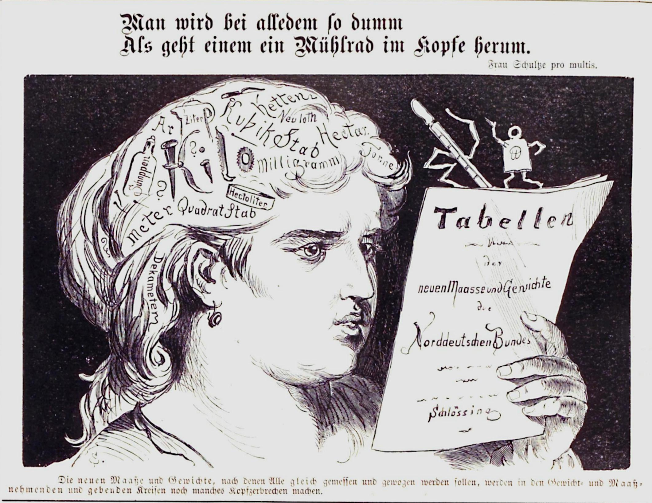 Karikatur, Kladderadatsch